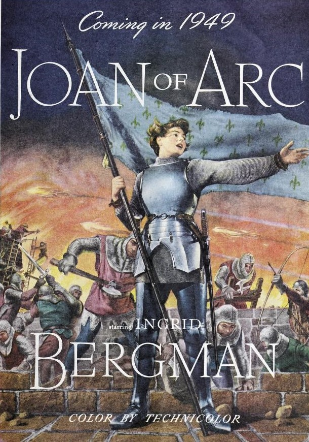 Coming in 1949 - Joan of Arc starring Ingrid Bergman